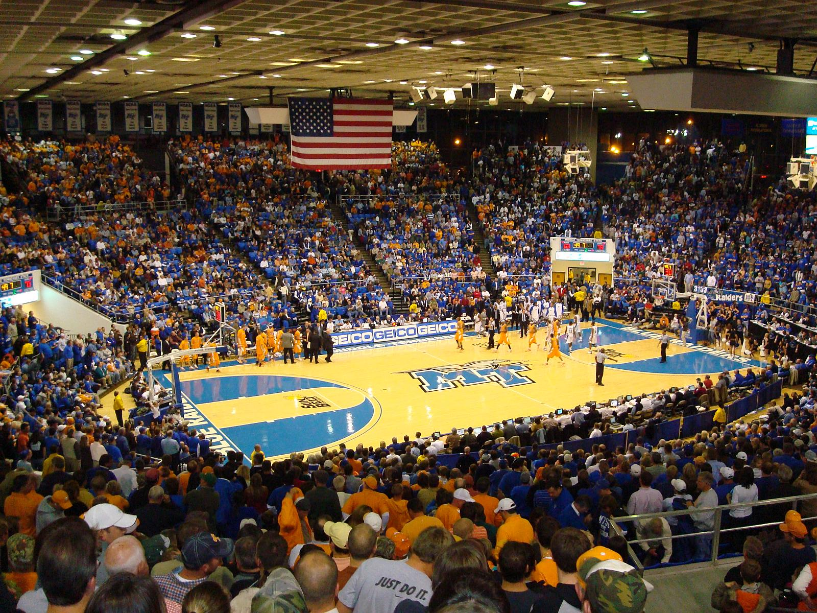 Murphy Center during the University of Tennessee vs. Middle Tennessee State college basketball game on November 21, 2008.